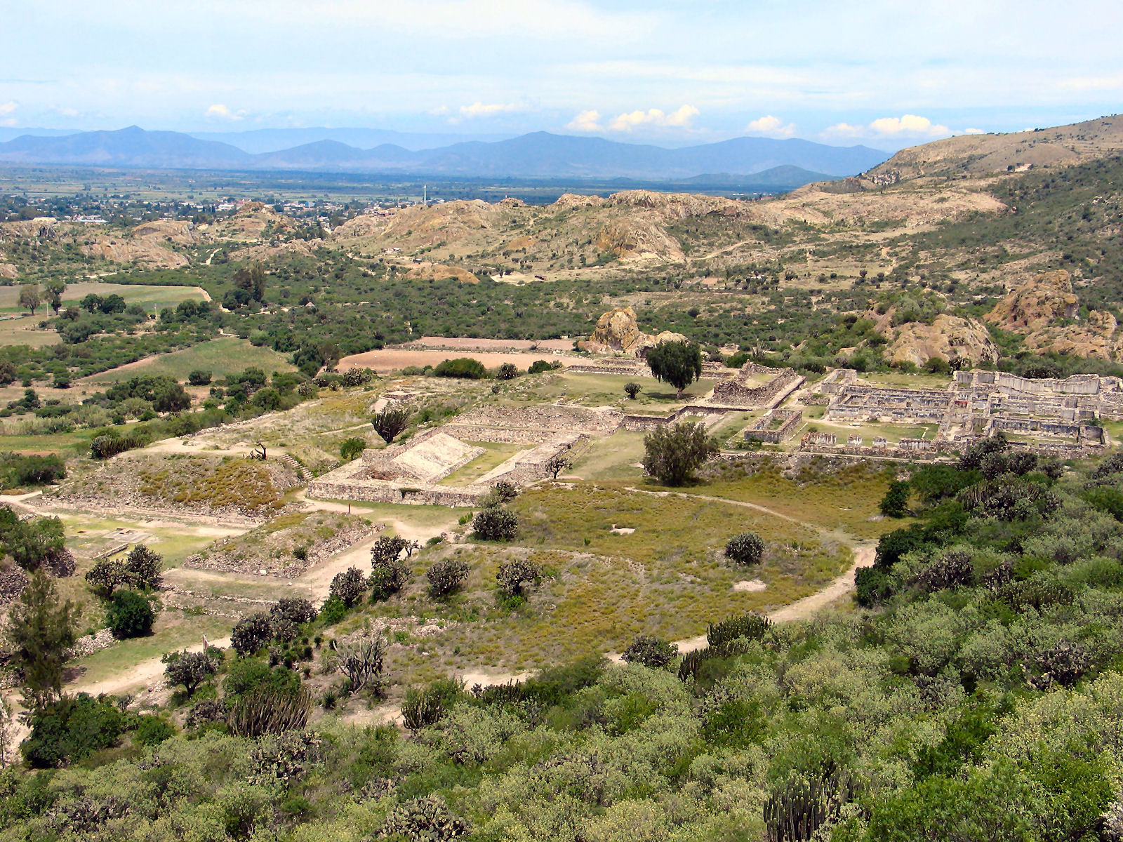 Panoramic view of Yagul, Oaxaca, Maexico from the fortress